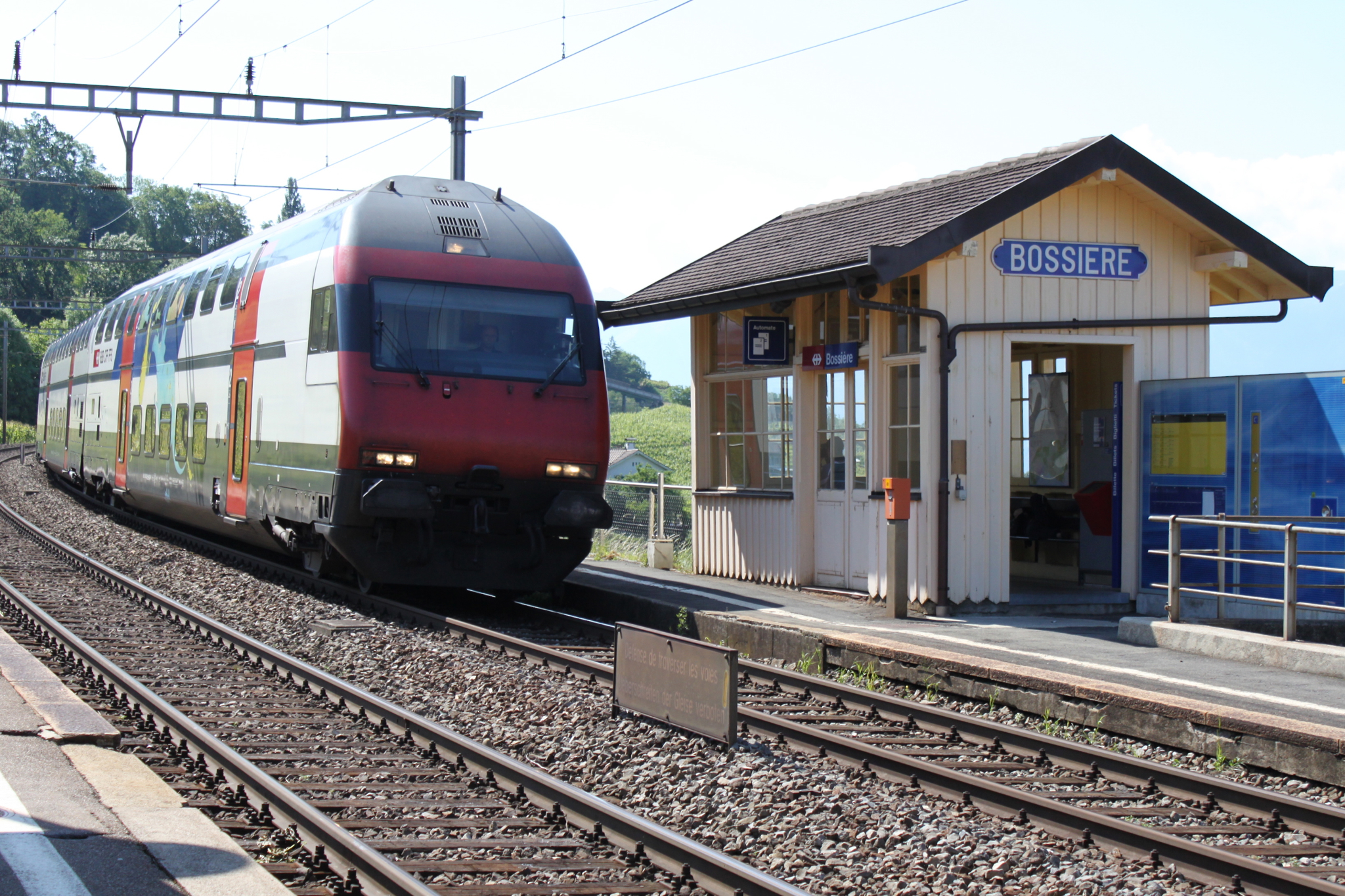 An IC2000 passing through Bossière train station.